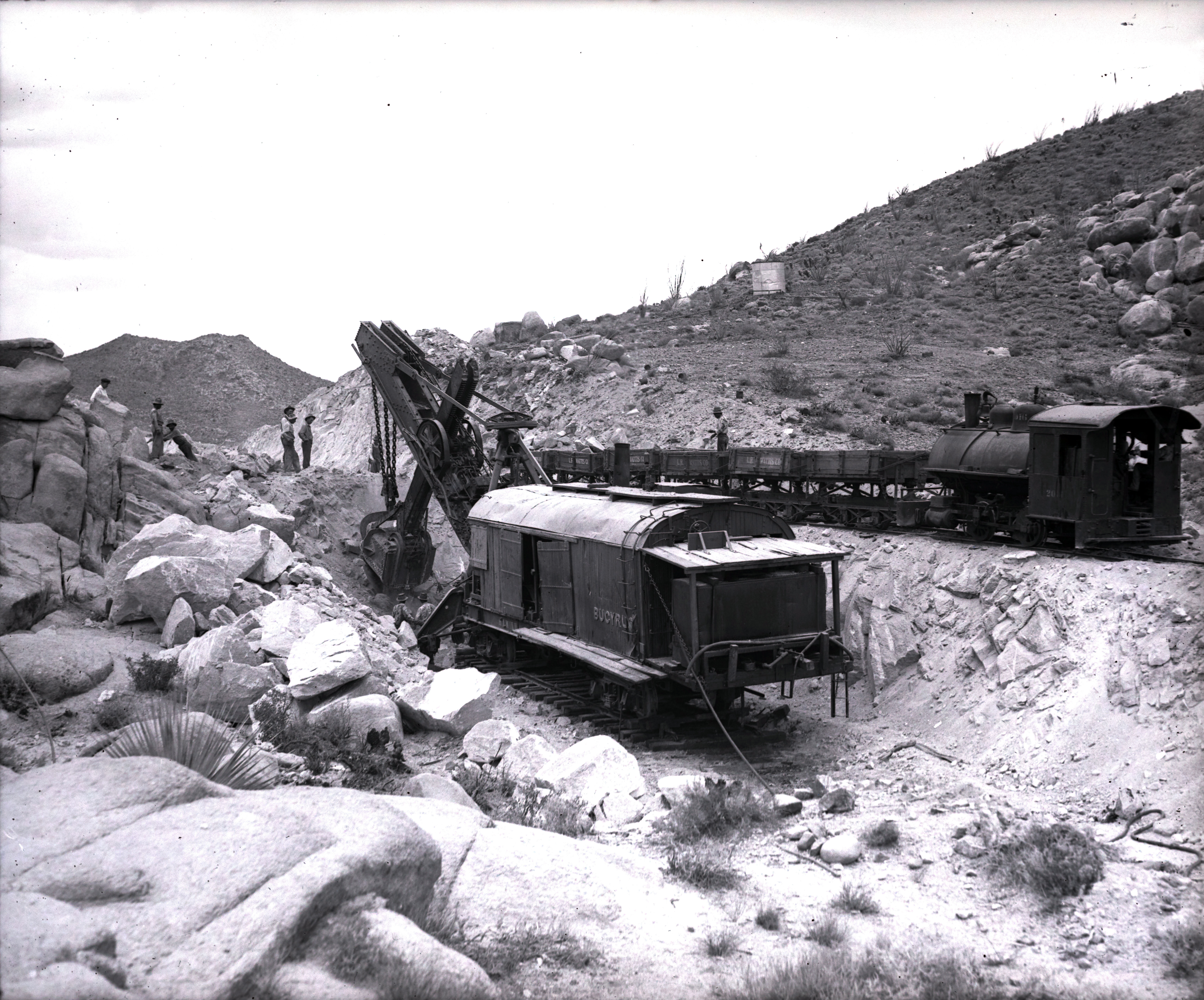 Title: Steam shovel digging path for San Diego-Yuma line of San Diego and Arizona Railroad line, circa 1919